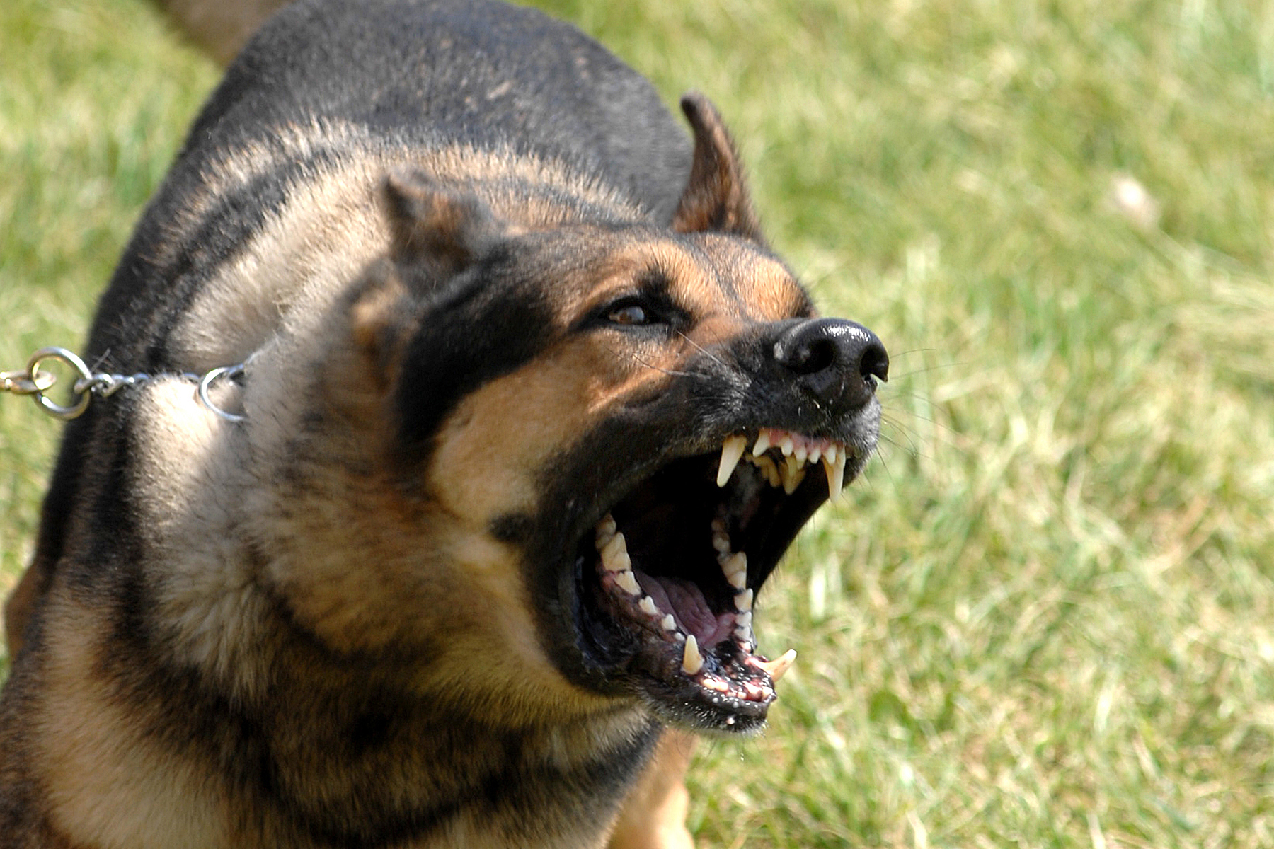 OFFUTT AIR FORCE BASE, Neb. -- Norman, a 55th Security Forces Squadron military working dog, waits to be unleashed and go after his target during training April 17. The Offutt K-9 unit performs regular training to maximize the dogs' effectiveness on the field of duty.